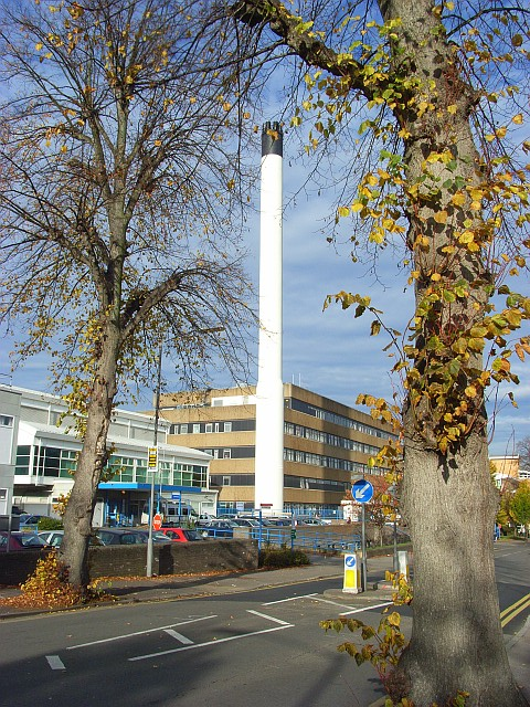 The endoscopy (white) and maternity block (yellow brick) blocks of the Royal Berkshire Hospital in Reading, Berkshire, England. For more information see the Wikipedia article Royal Berkshire Hospital.